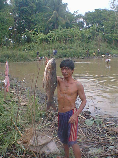 Villager Bunghan Ruasamran demonstrating his catch in Ban Dongphayom, Phitsanulok, Thailand.